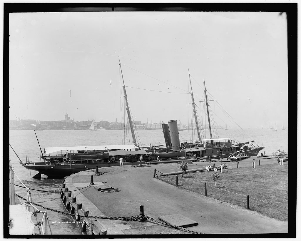 USS Vixen (PY-4). Detroit Publishing Company photograph collection (Library of Congress).